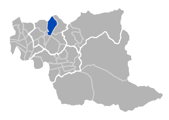 The location of XingTaiLi in WenShan District , Taipei City